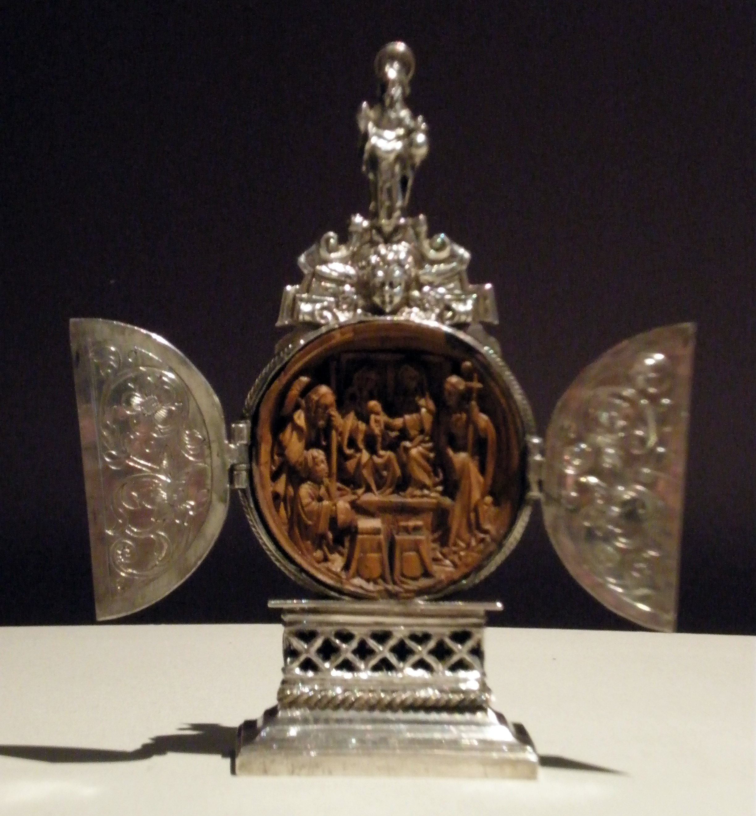 Miniature altar (portable shrine) 1500-20 Probably Northern Netherlands Boxwood and silver Carved boxwood roundels of religious scenes were a Netherlandish speciality of the late fifteenth and early sixteenth century. Many of them acted as pendant beads for rosaries. Within about fifty years of having been carved, the roundel was incorporated into a mount in the form of a 'house-altar'. These were free-standing small images, some portable, which were intended for domestic use in private prayer. The lay couple kneeling at the prayer desks are the original owners of the carving, and the saints presenting them to the Virgin and Child and Saint Anne would have been their patrons, perhaps even their name saints. Collection ID: 225-1866 This photo was taken as part of Britain Loves Wikipedia in February 2010 by David Jackson.